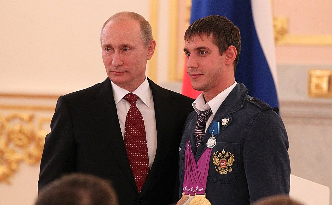 Presenting state decorations to London Paralympic Games champions and medallists. Order of Honour presented to champion, silver and two-time bronze medallist Konstantin Lisenkov.